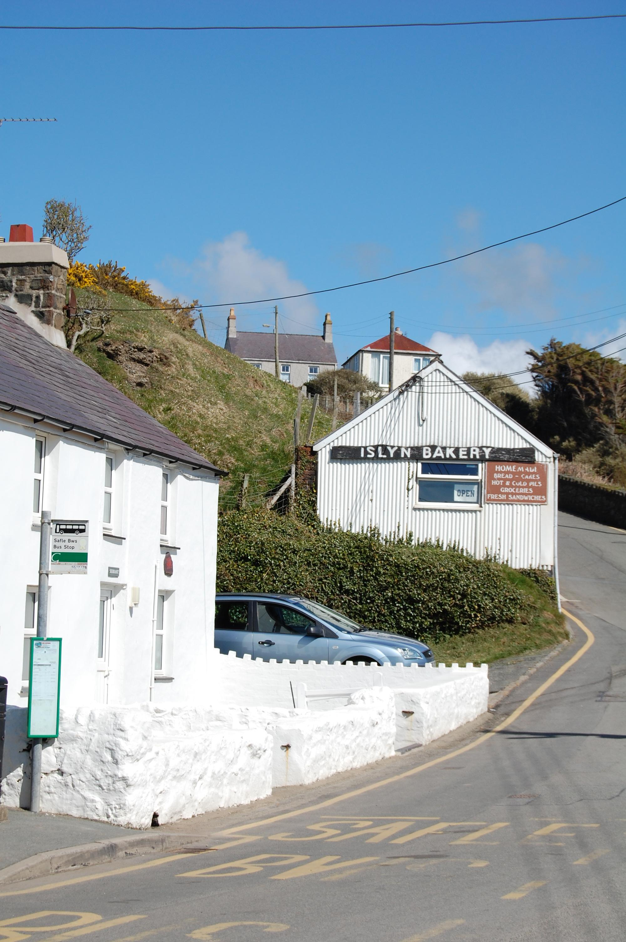 Islyn Bakery at Aberdaron, Gwynedd